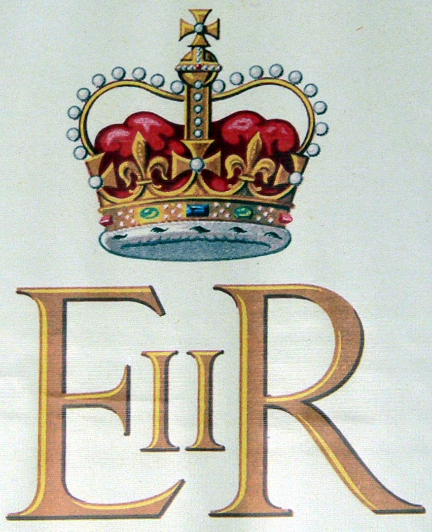 English Royal Family´s stamp collection, European stamp exibition Brno 2005